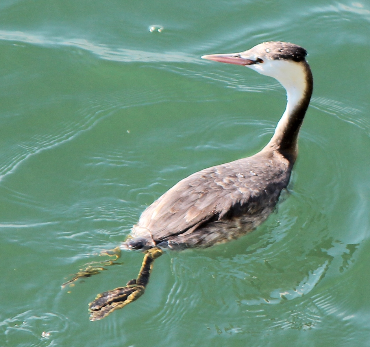 Winter plumage of Podiceps cristatus ( Great Crested Grebe) in Tahara Bay, Japan.